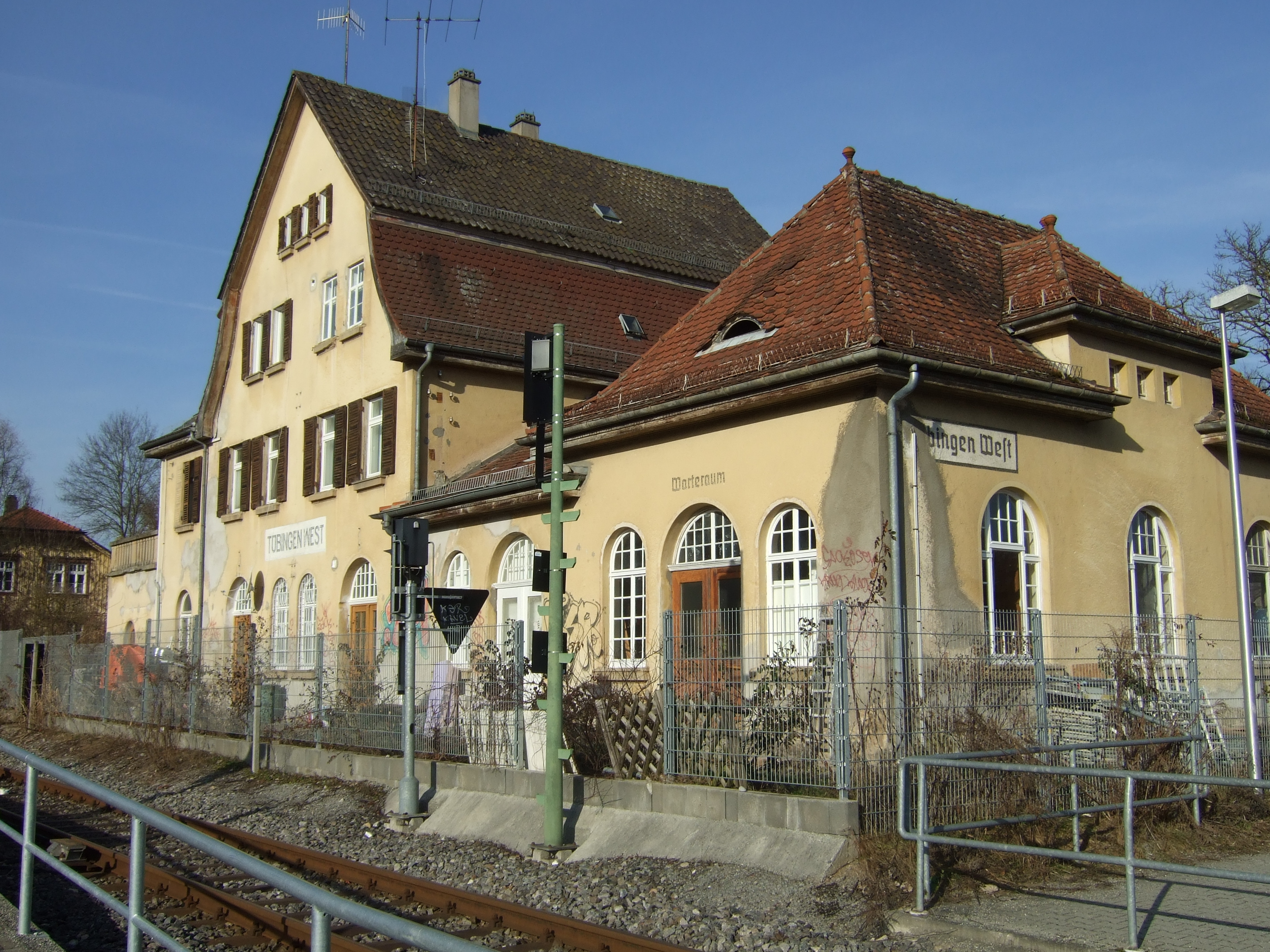 Tübingen Westbahnhof